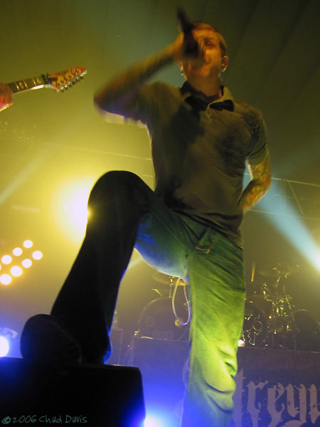 Atreyu performing live in Milwaukee at The Rave on November 5th, 2006